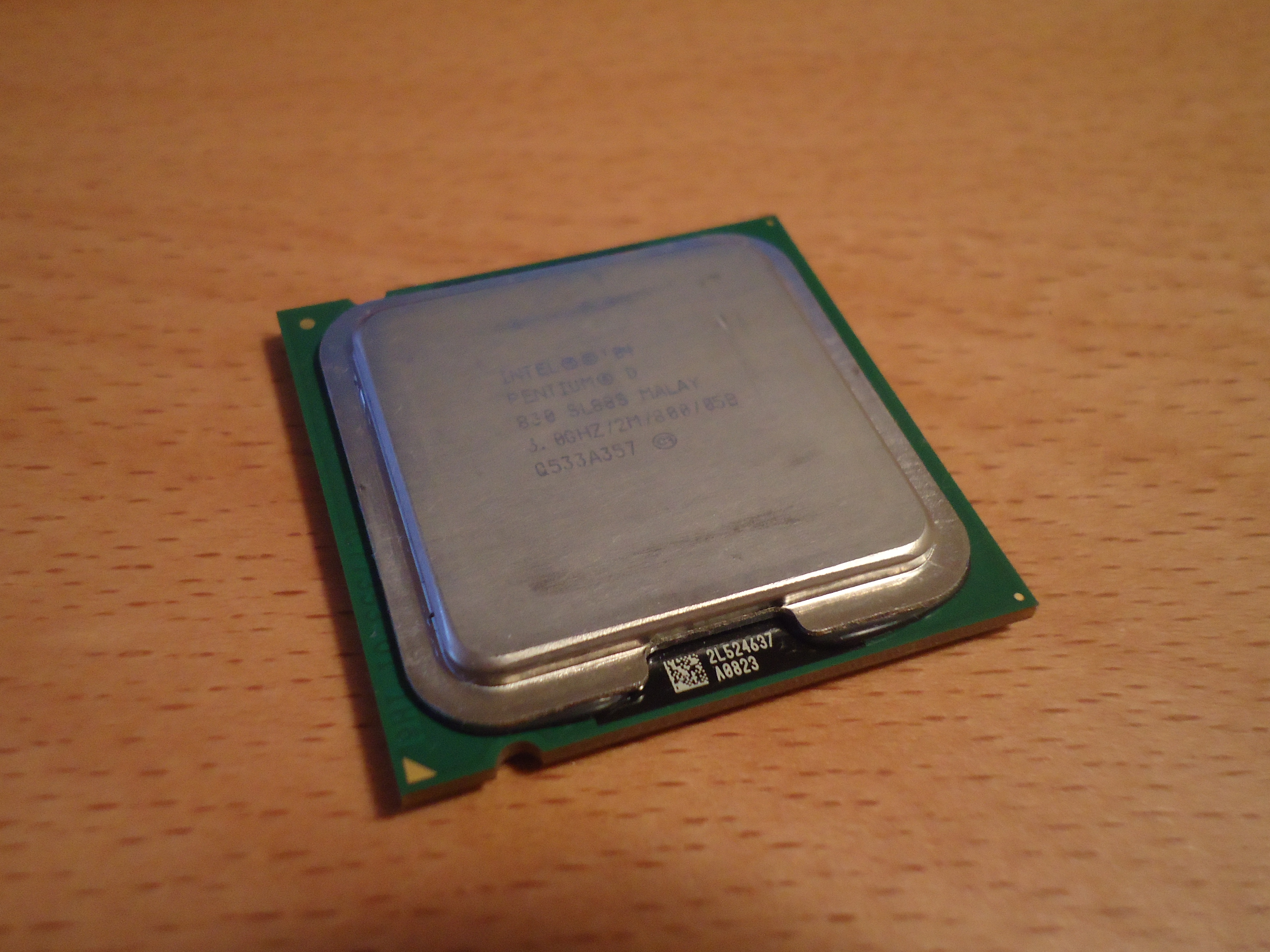 The front of a Pentium D processor